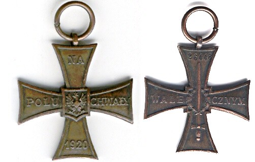 Obverse (left) and reverse (right) sides of the 1920 Cross of Valor (Poland). The obverse reads Na polu chwały (On the field of glory), the reverse reads Walecznym ((For/to) the Valorous) Grafika:Krzyz Walecznych 1920.jpg